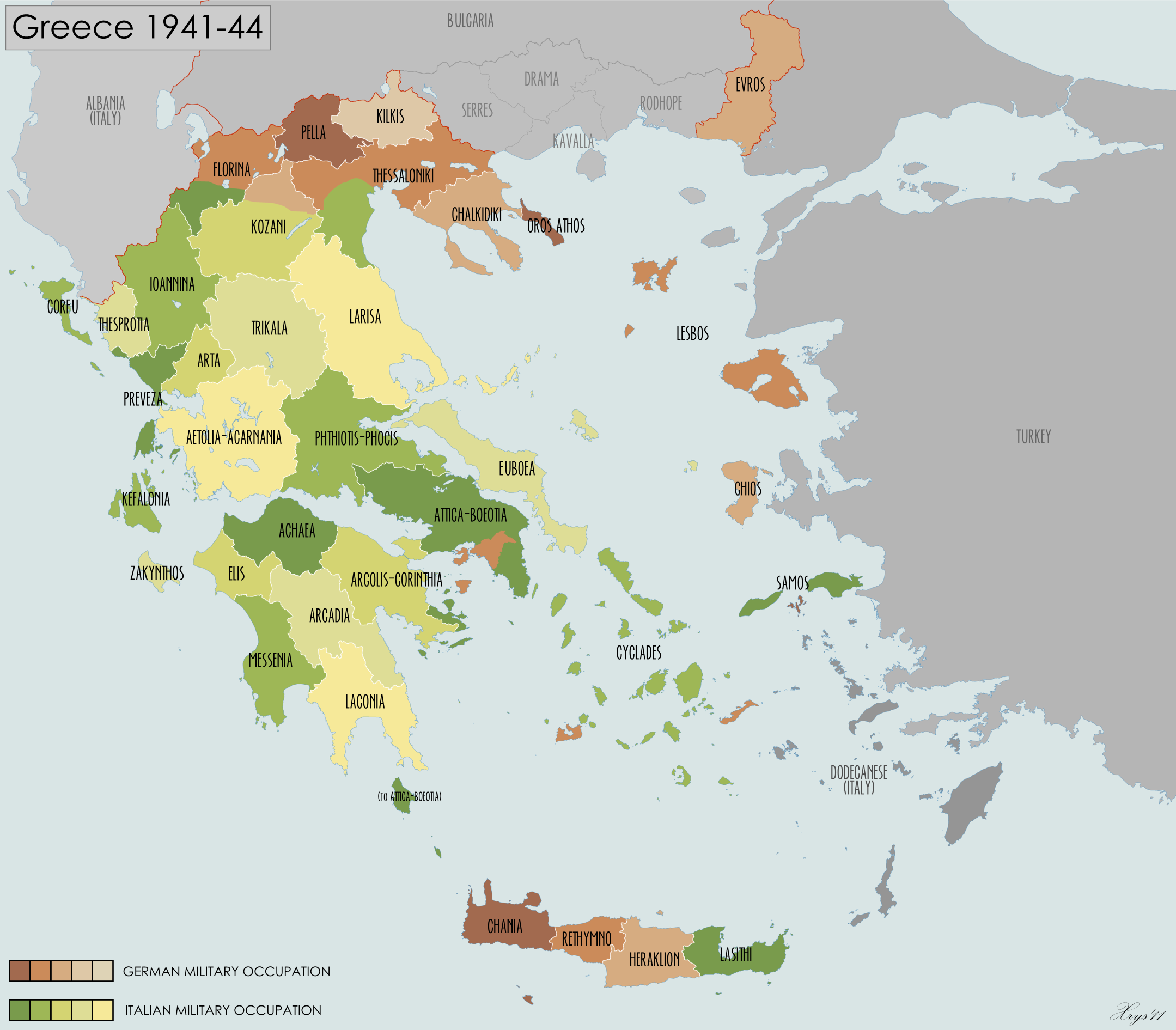 Prefectures of Greece under Axis Occupation, 1941-44. Source: Greece political map, 1:1 000 000, 512 Fd. Survey Coy., R.E., 1943.